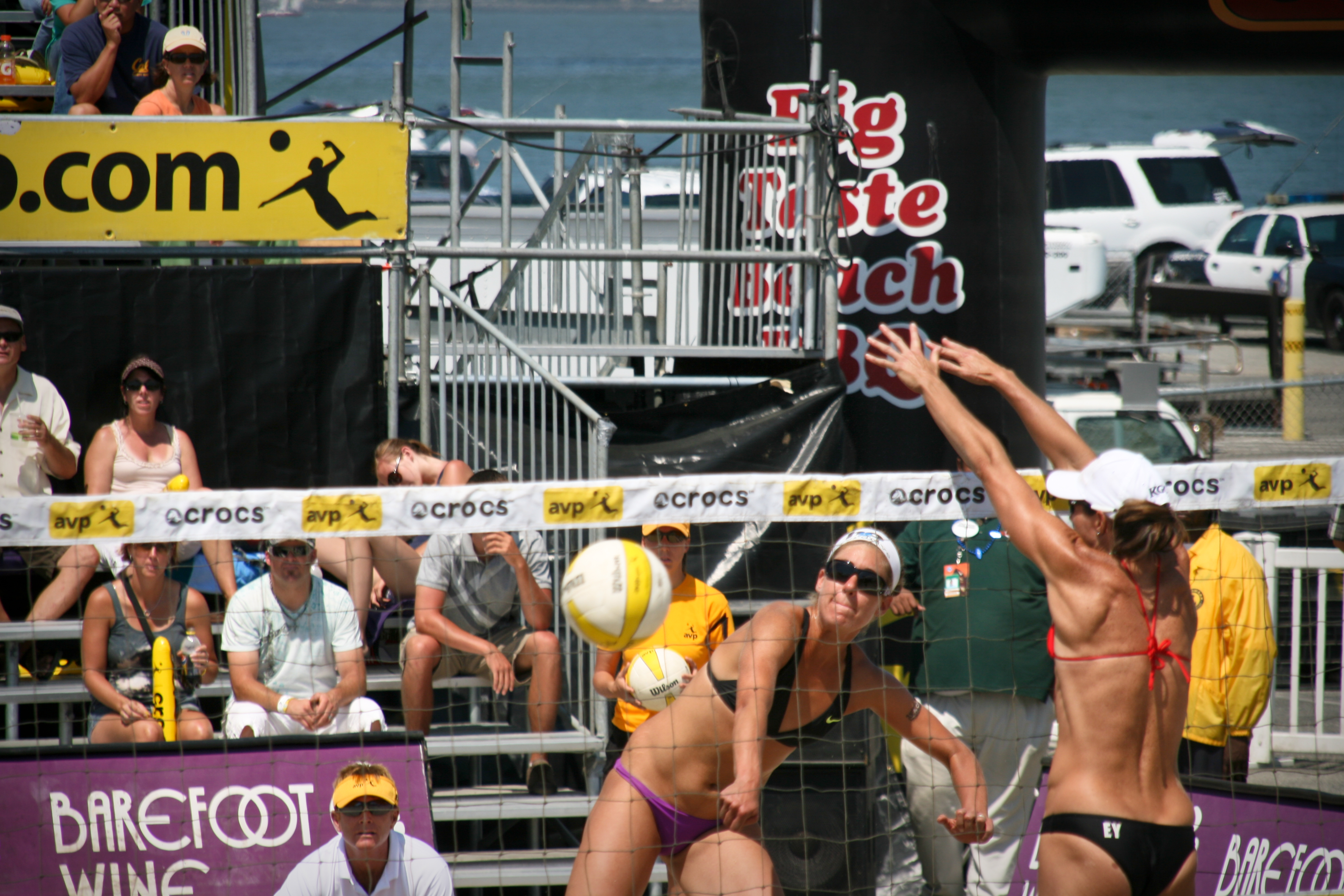 April Ross spiking past Elaine Young's block at the 2009 AVP San Francisco Open finals